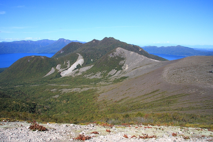 Mount Fuppushi seen from the SSE. Taken from Mount Tarumae.